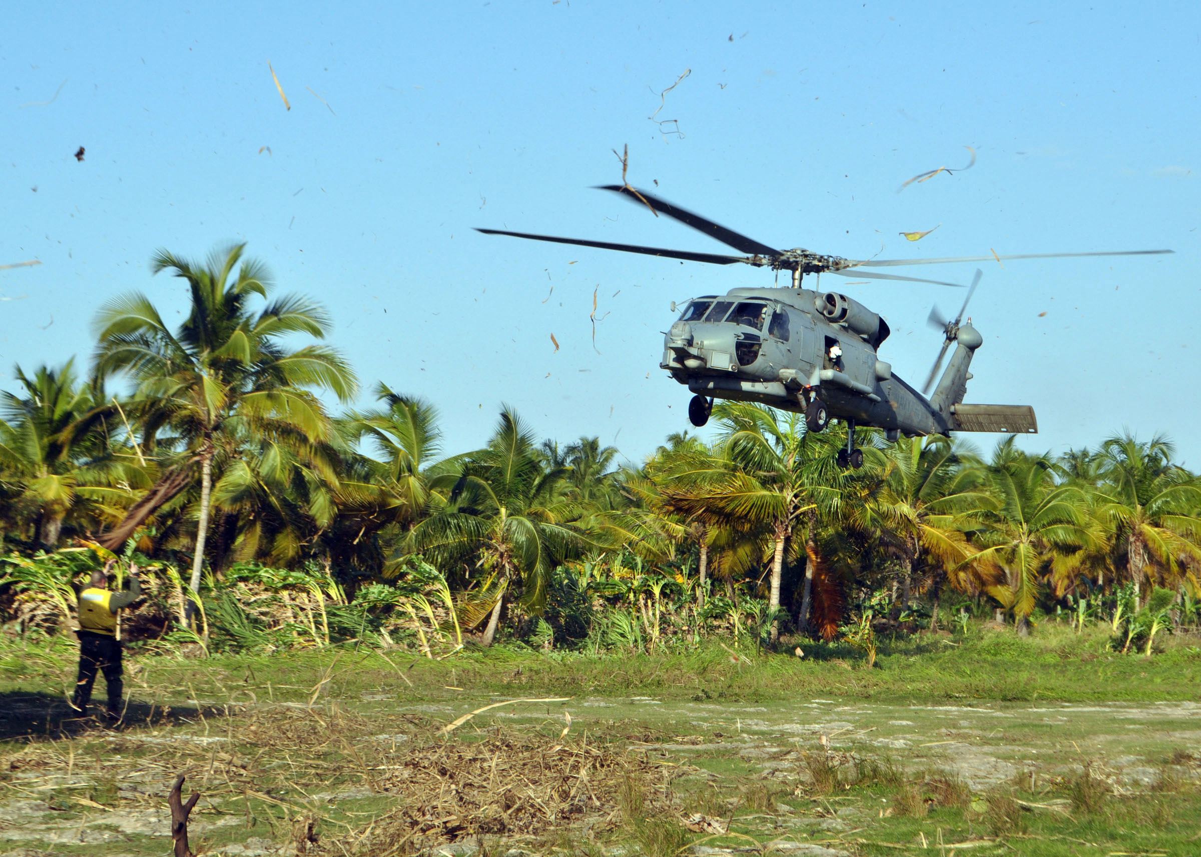 PETIT TROU DE NIPPES, Haiti (Jan. 23, 2010) An SH-60B Sea Hawk helicopter assigned to Screaming Seagulls of Helicopter Anti-submarine Squadron Light (HSL) 46, embarked aboard the guided-missile cruiser USS Normandy (CG 60), flies into a field at Petit Trou de Nippes to medivac an 11-year-old Haitian girl diagnosed with yellow fever. Normandy is supporting Operation Unified Response, the humanitarian assistance and disaster relief response to the earthquake in Haiti on Jan. 12, 2010. (U.S. Navy photo by Ensign Adam R. Cole/Released)